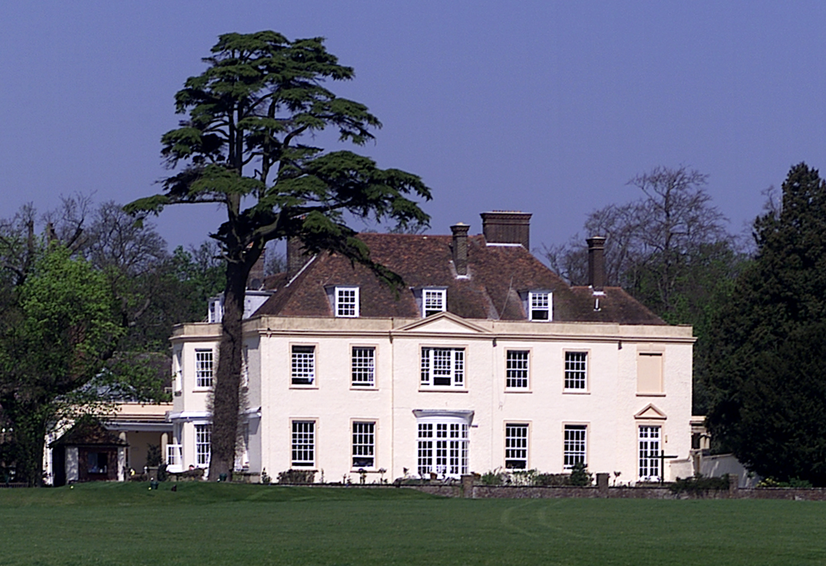 I took this photo